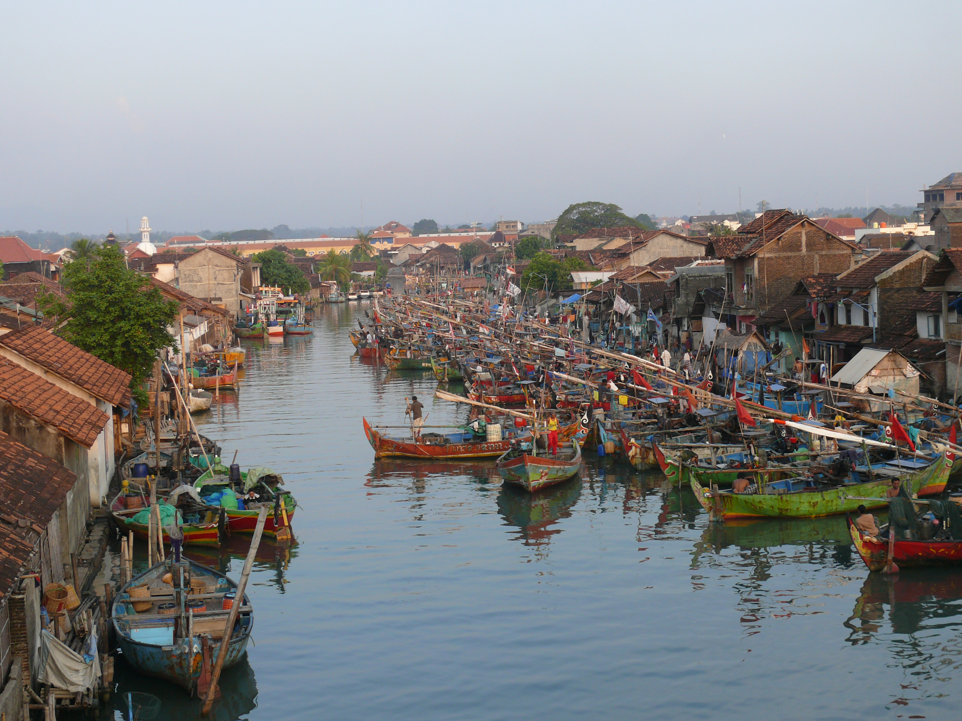 Jobokuto Fishermen Village, Jepara, Central Java